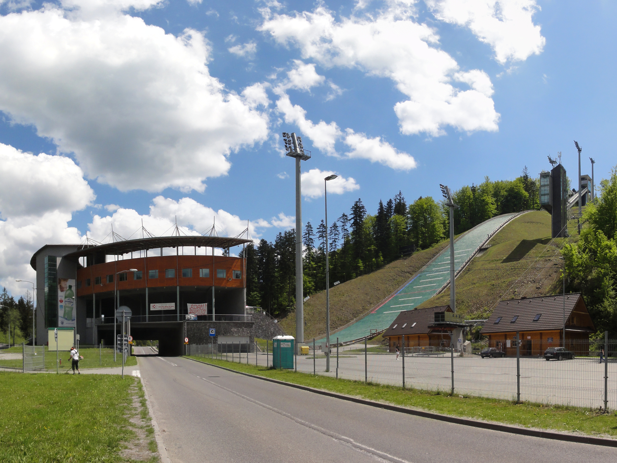 Voivodeship road 942 (Poland) under Malink Ski Jumping Hill in Wisła